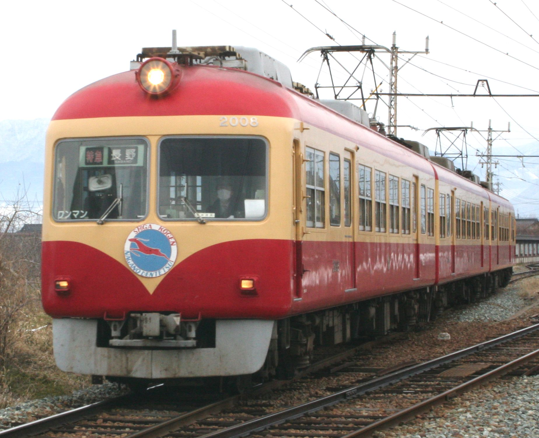 Nagano Electric Railway 2000 series set 2008